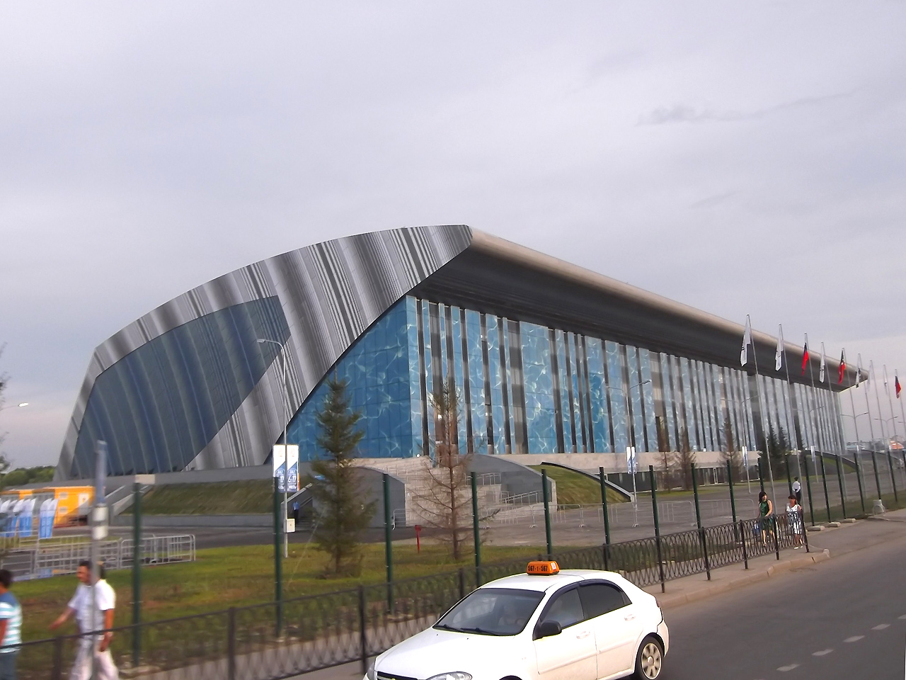 Palace of Water Sports in Kazan